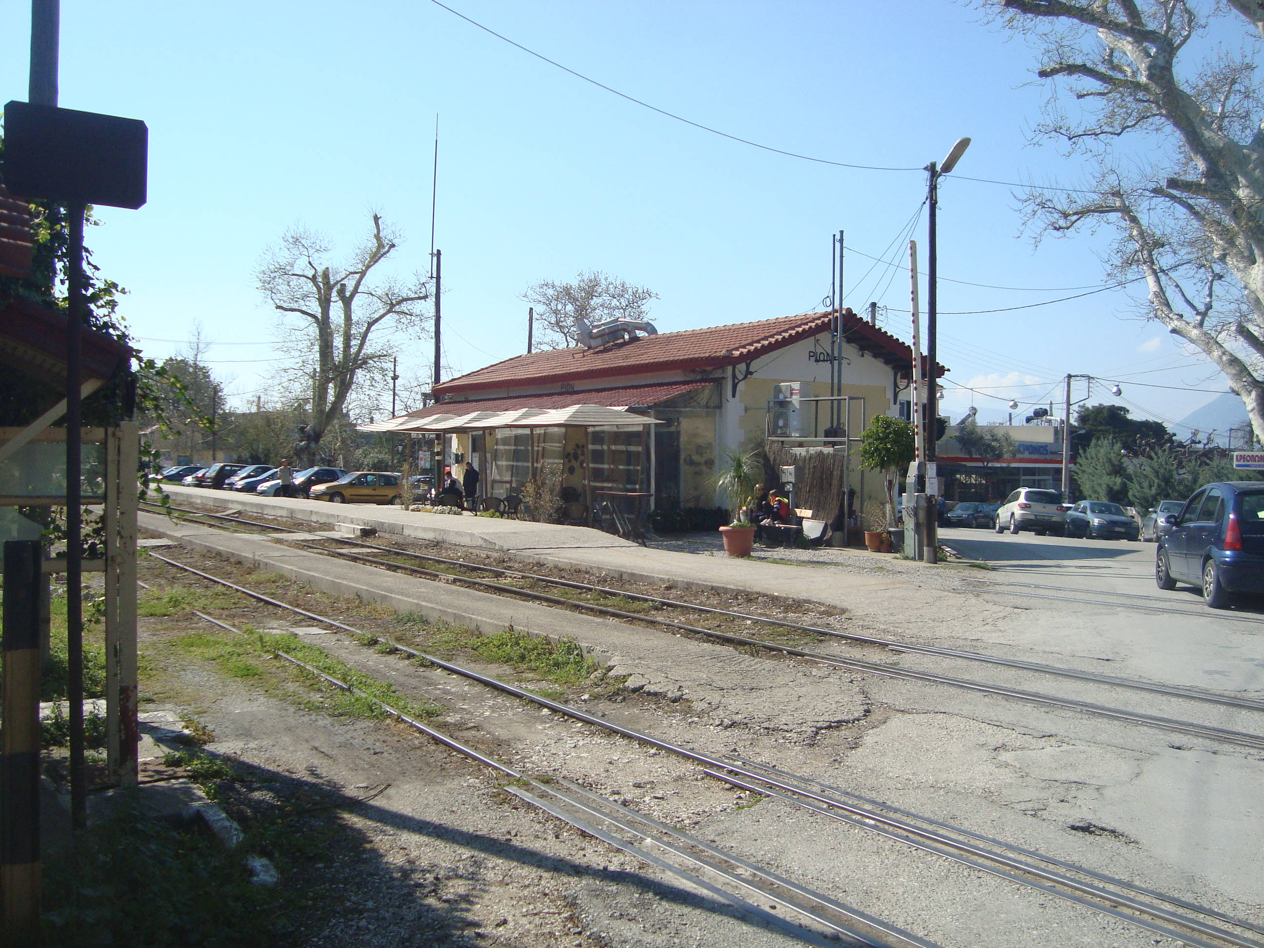 Rio train station, Achaia